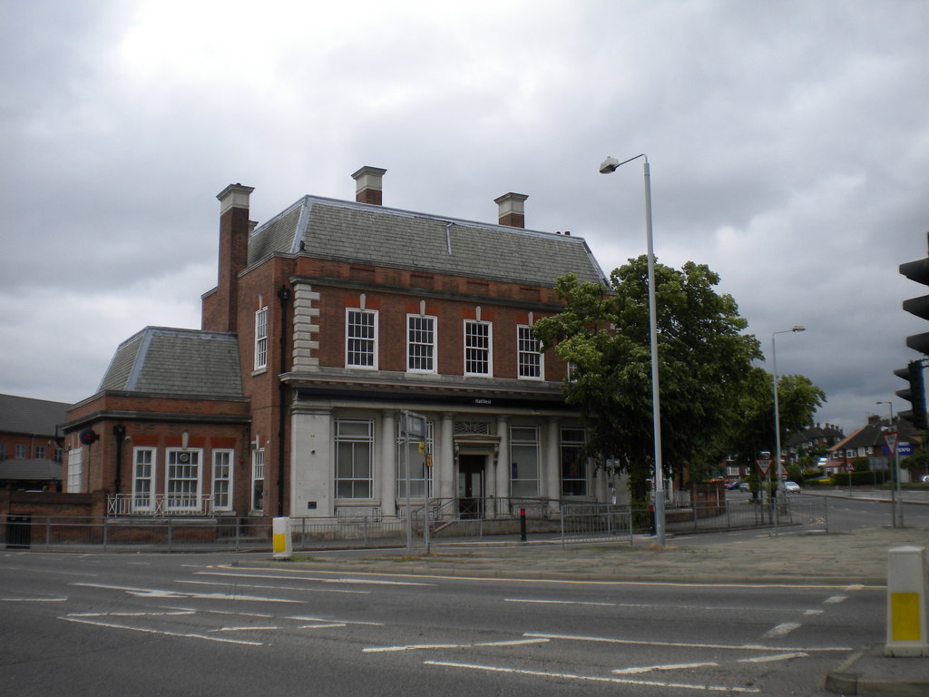 NatWest bank, Basford